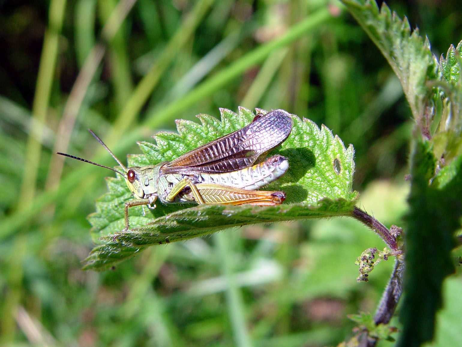 Closeup of a grasshopper male adult of (Stauroderus scalaris)